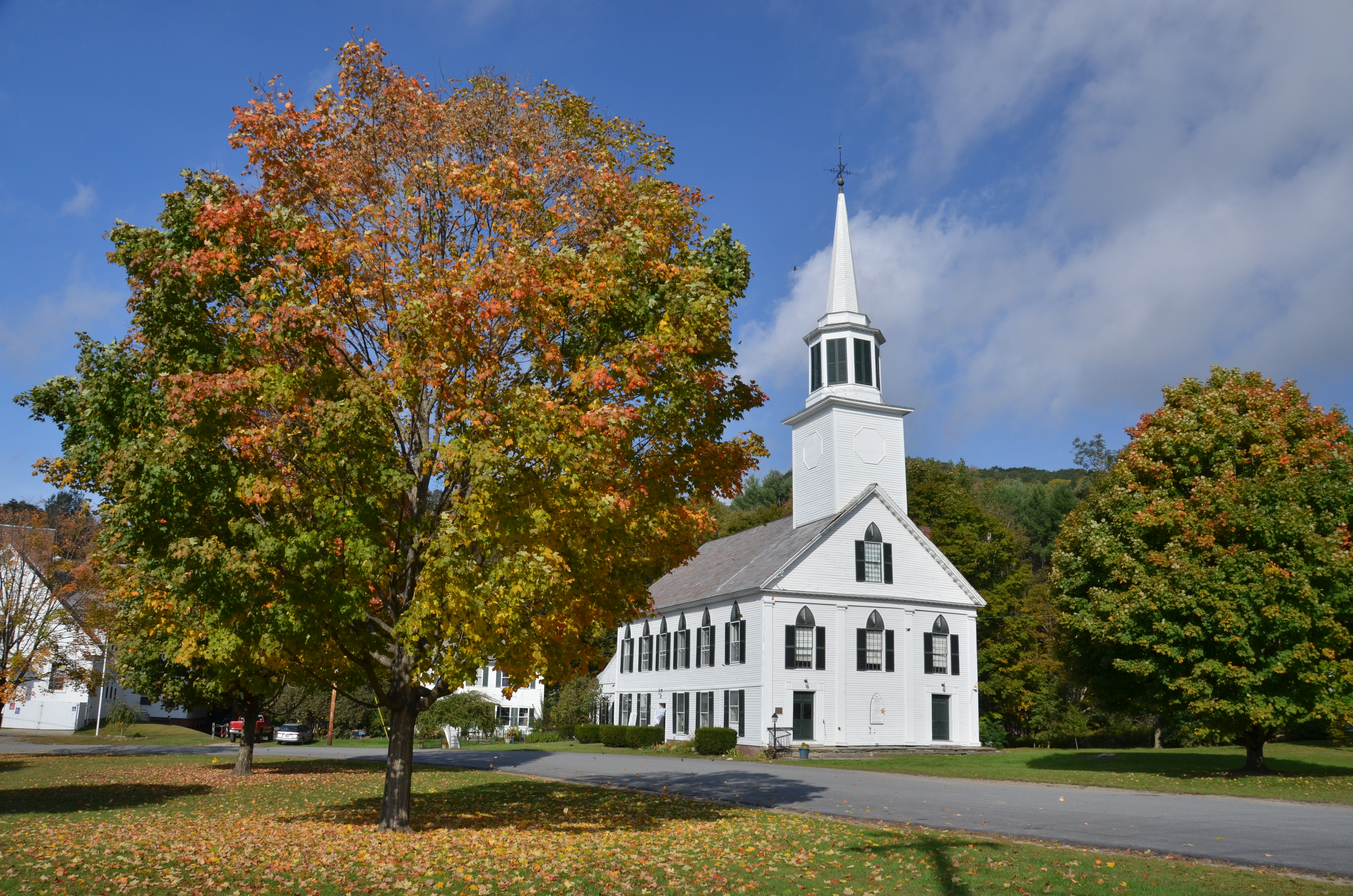 First Congregational Church and Meetinghouse, Near the junction of Vermont Routes 30 and 35 Townshend